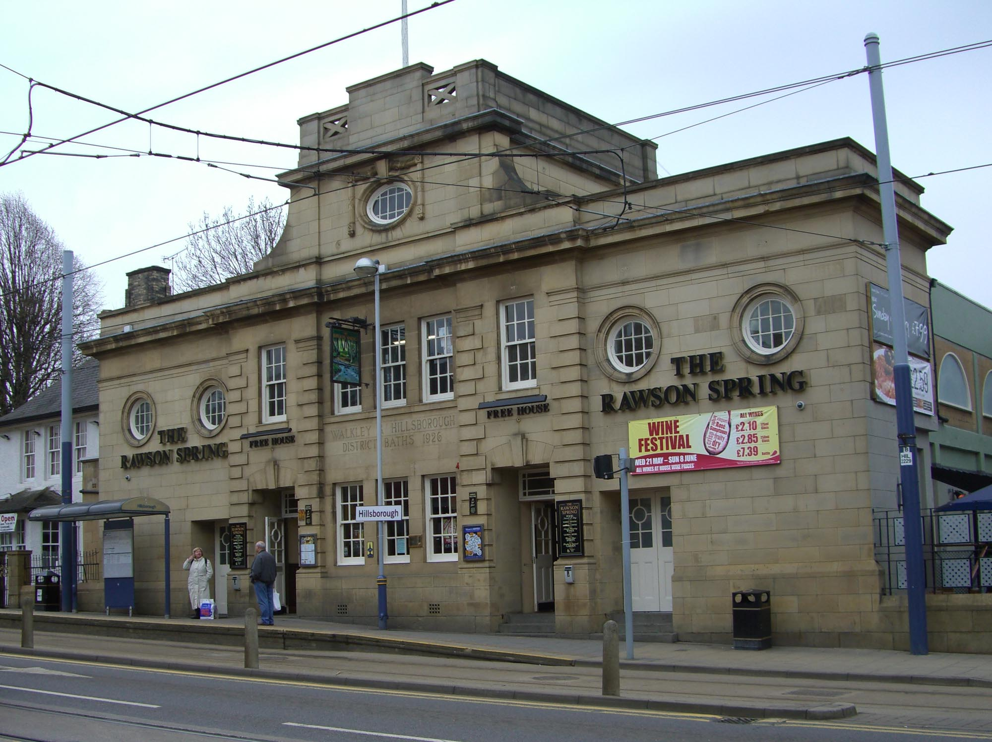 Rawson Spring pub, Langsett Road, Hillsborough, Sheffield, South Yorkshire, seen from the north. Built as a public swimming pool.